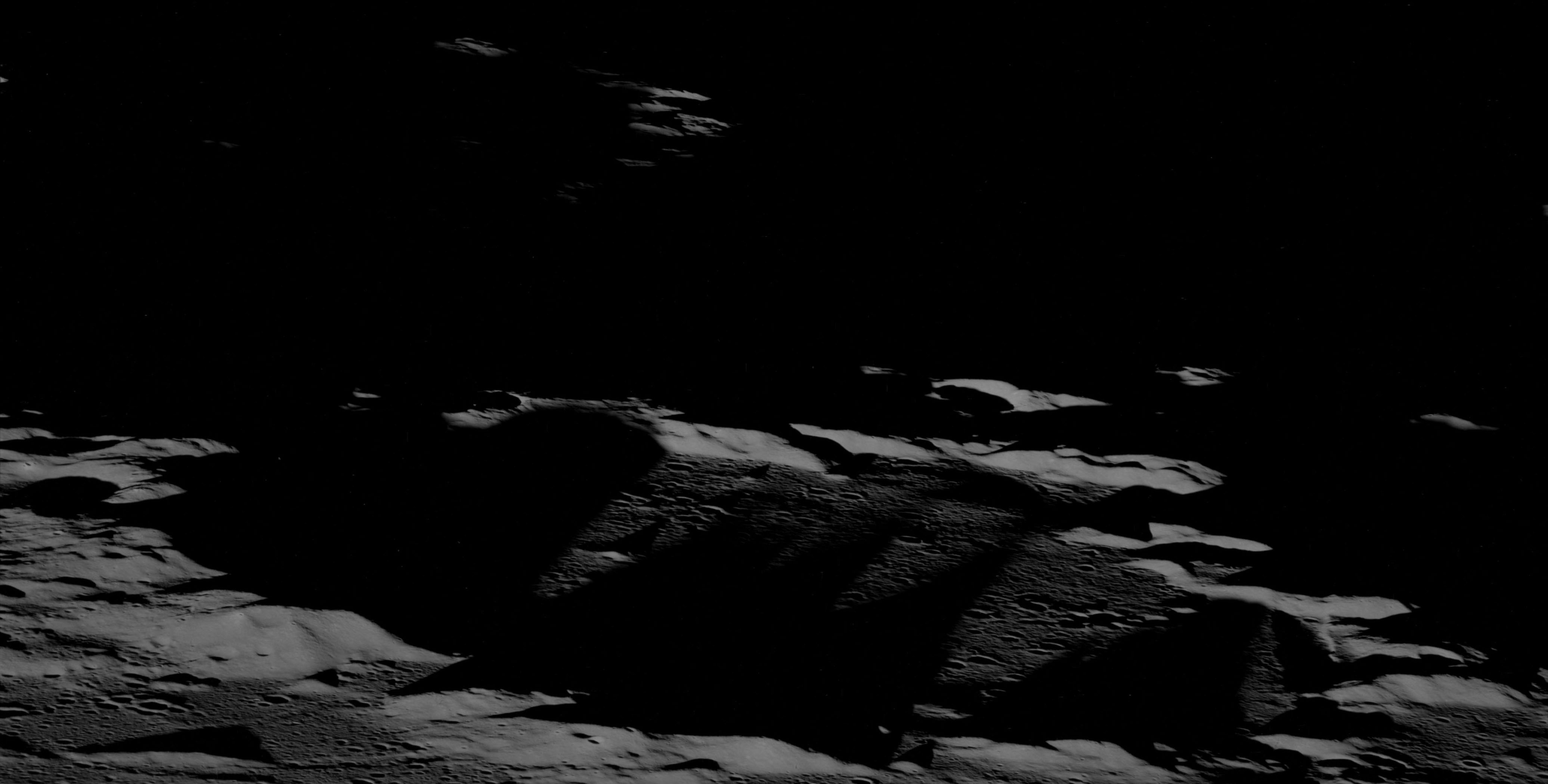 Oblique view of Réaumur crater, while at the sunrise terminator, on the moon. (Note: source image is incorrectly identified as Oppolzer crater.)